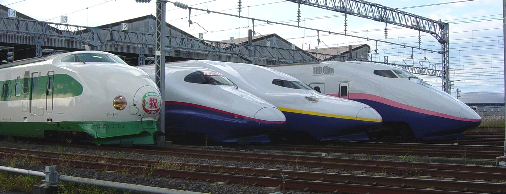 Lineup of JR East 200, E2, E4, and E1 series Shinkansen trains at Niigata Shinkansen Rolling Stock Center, November 2007